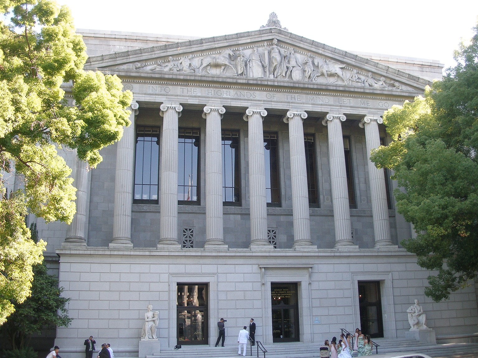 The Stanley Mosk Library and Courts Building in Sacramento, California, which is the home of the California Court of Appeal for the Third District.